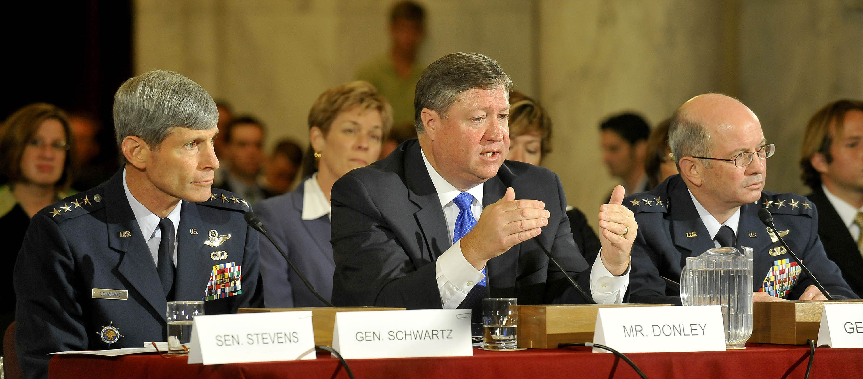 Secretary of the Air Force Michael B. Donley testifying before the United States Senate with General Norton A. Schwartz (left) and General Duncan J. McNabb